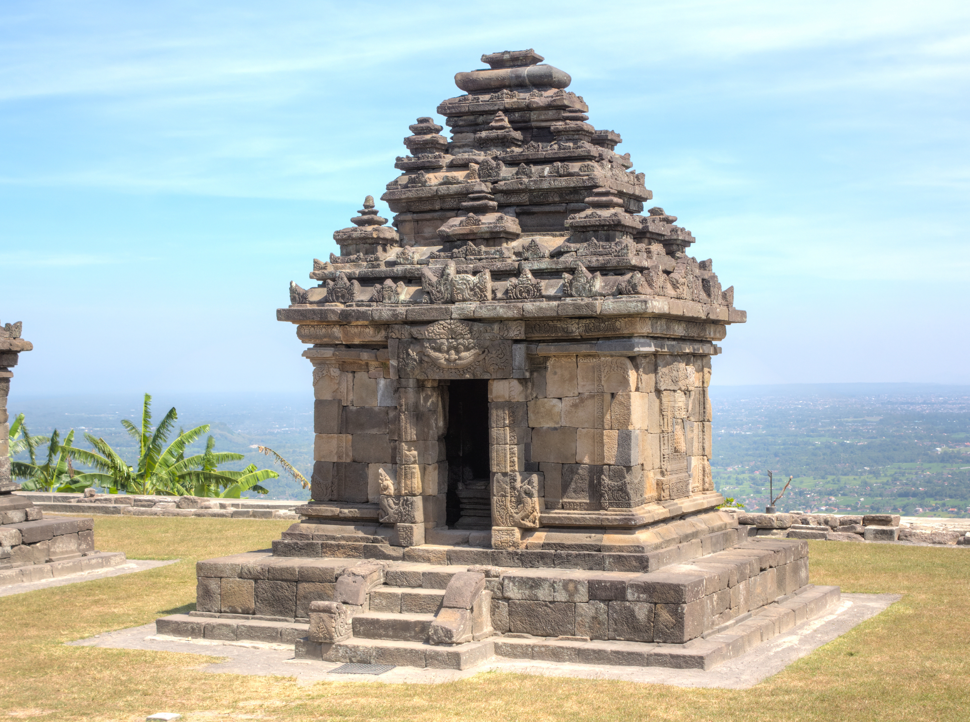 Perwara temple at Candi Ijo, 2014-05-31